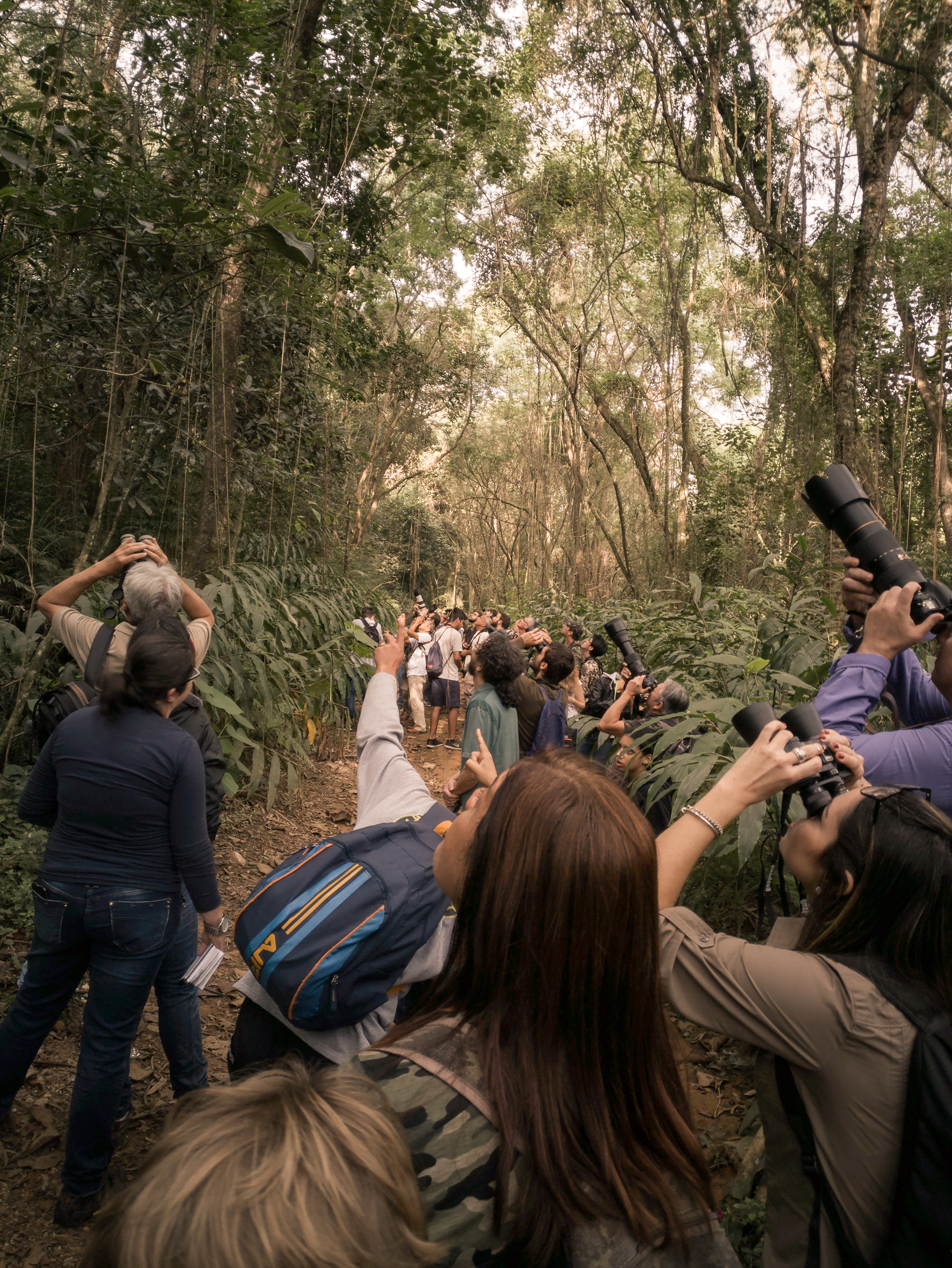 people birdwatching